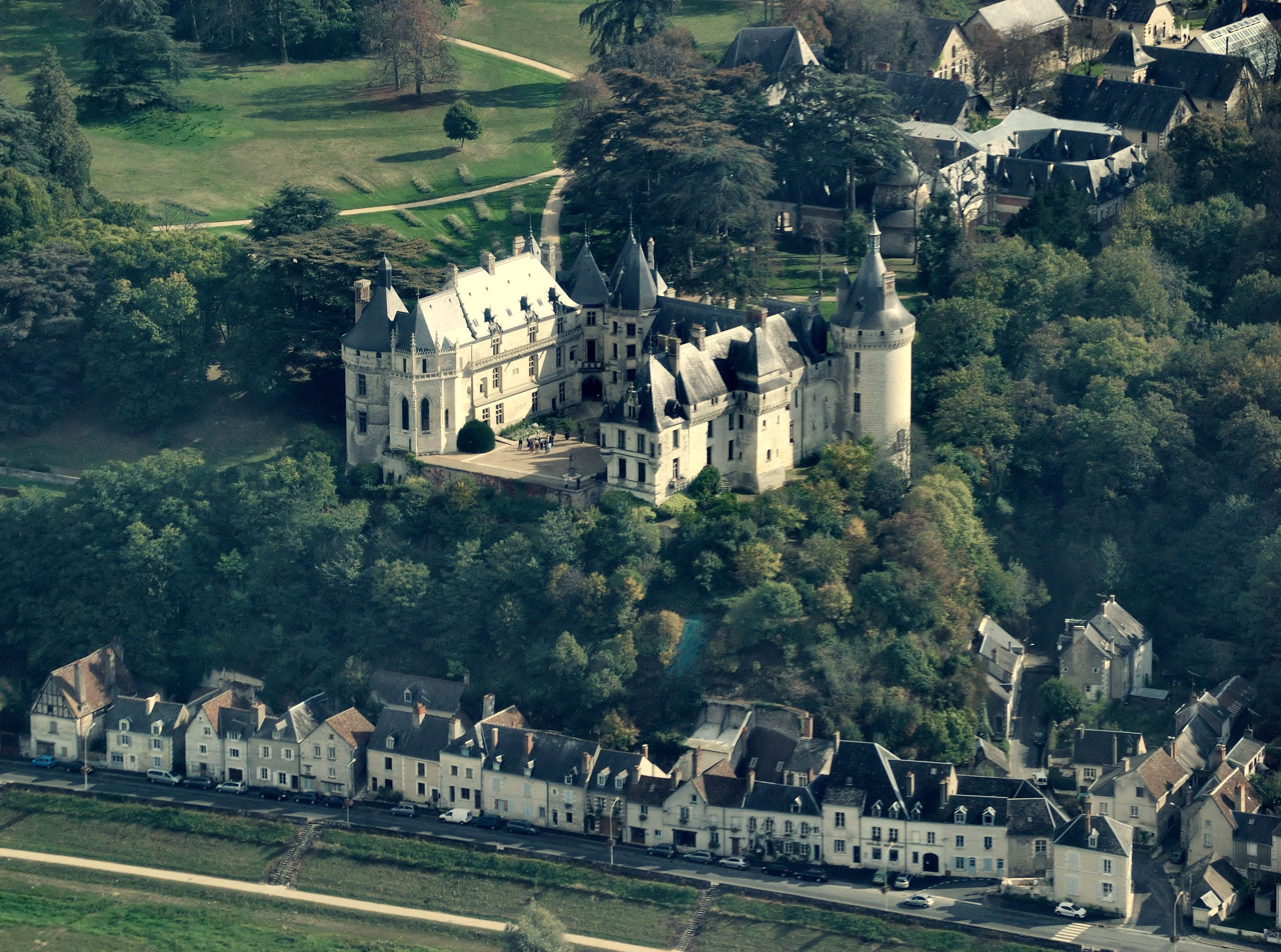 Aerial view of the castle of Chaumont-sur-Loire, Loir-et-Cher department, France. The main entrance is visible from the courtyard. The houses near the bottom of the picture stand alongside the left bank of the Loire. Nikon D60 f=110mm f/8 at 1/1000s ISO 400. Processed using Nikon ViewNX 1.3.0 and GIMP 2.6.6.